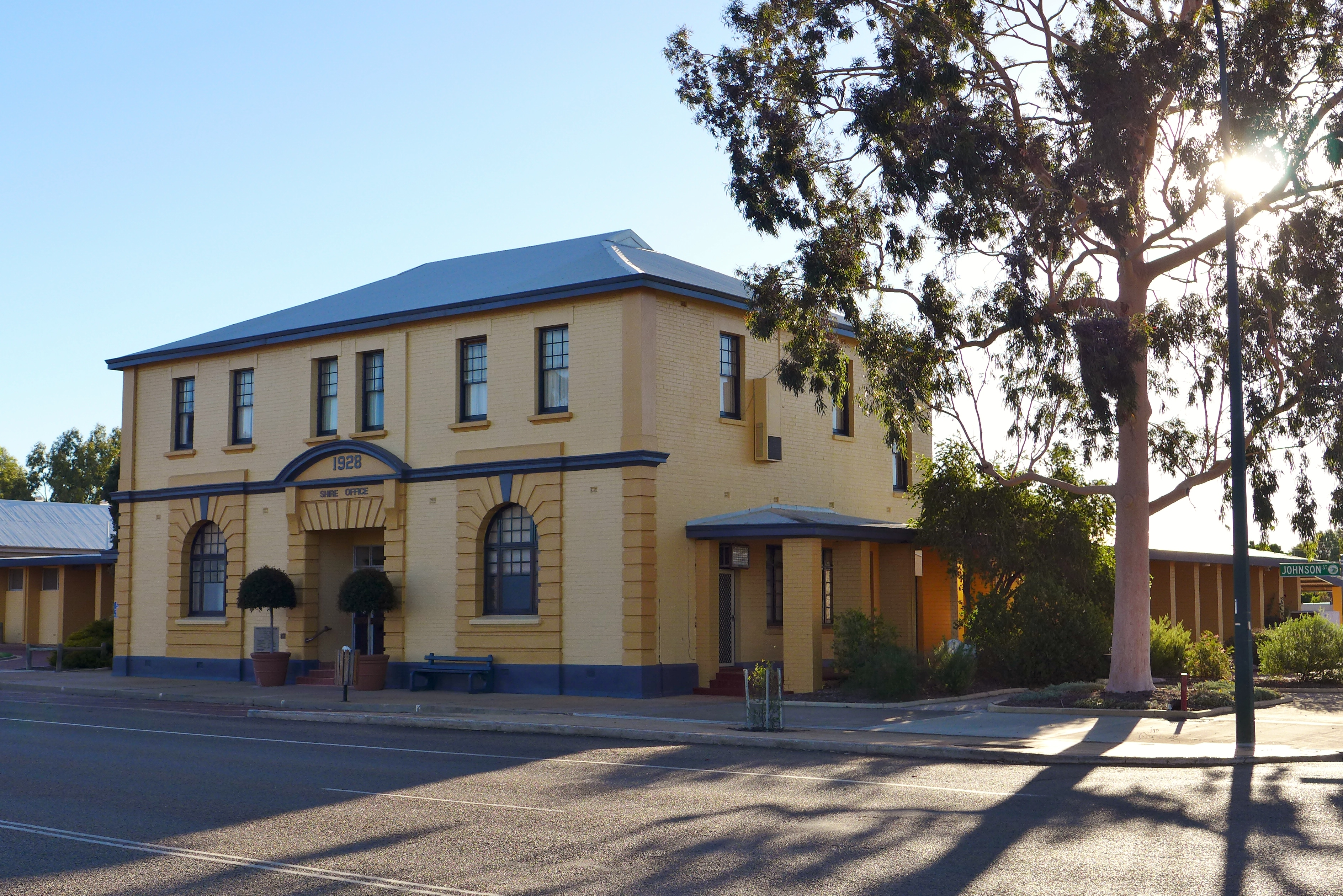 View of the Bruce Rock shire offices, Johnson Street, Bruce Rock, Western Australia.